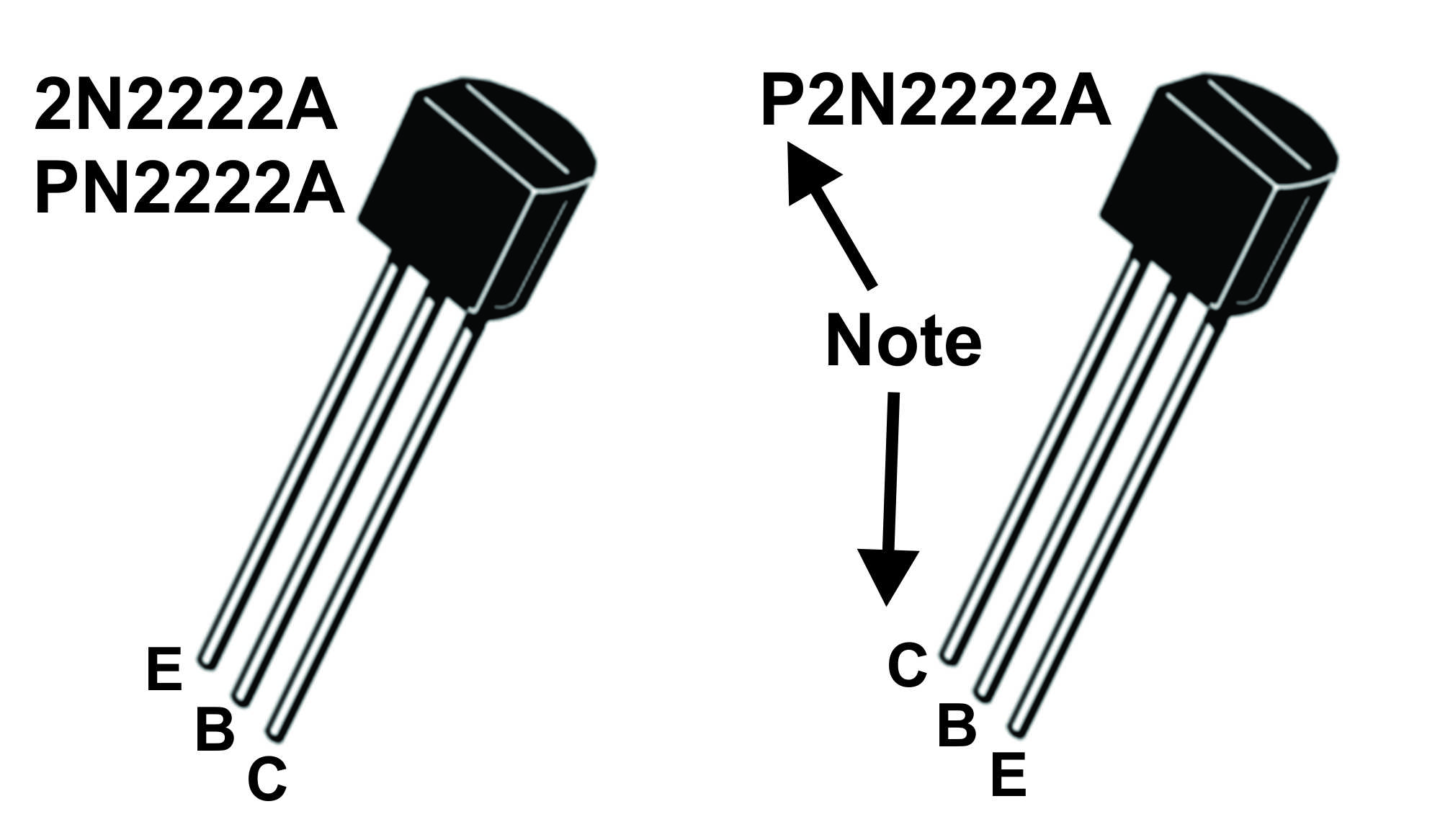 The pinout for the popular 2N2222 BJT and variants